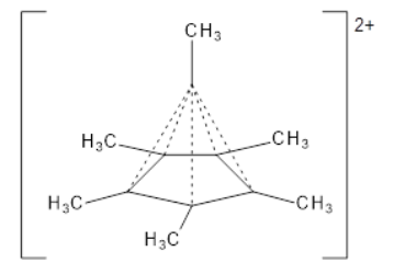 Image of the dication of hexamethylbenzene as used by Steven Bachrach and used in his blog post of January 17, 2017. Extracted and uploaded by user:EdChem on January 18, 2017. The image is a chemical structure and thus ineligible for copyright protection.